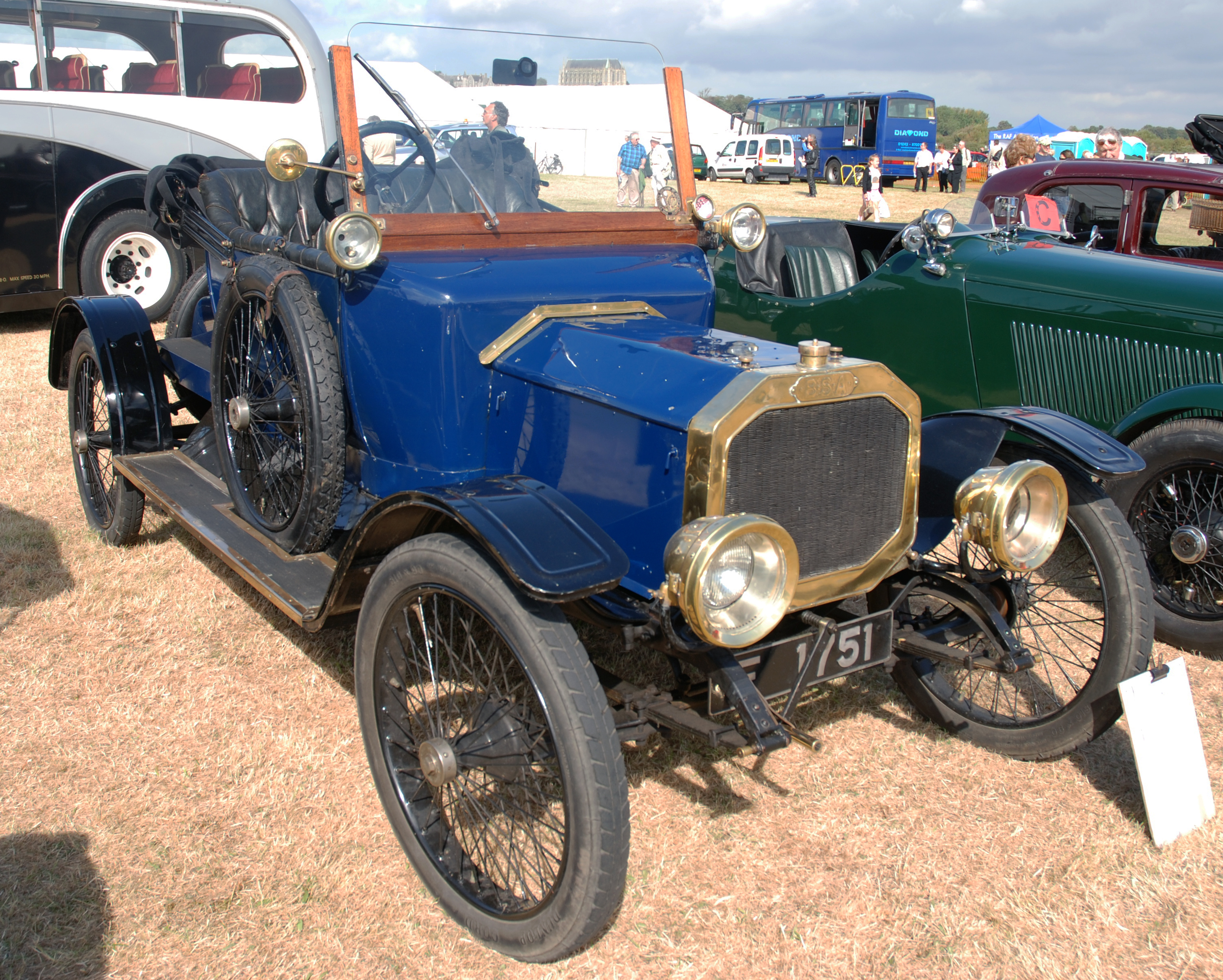 1912 BSA 13.9 hp 2-seater tourer (DVLA) first registered 1912, 2015 cc@Shoreham RAFA day 16/9/07